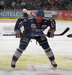 Marcus Kink, ice hockey player, forward